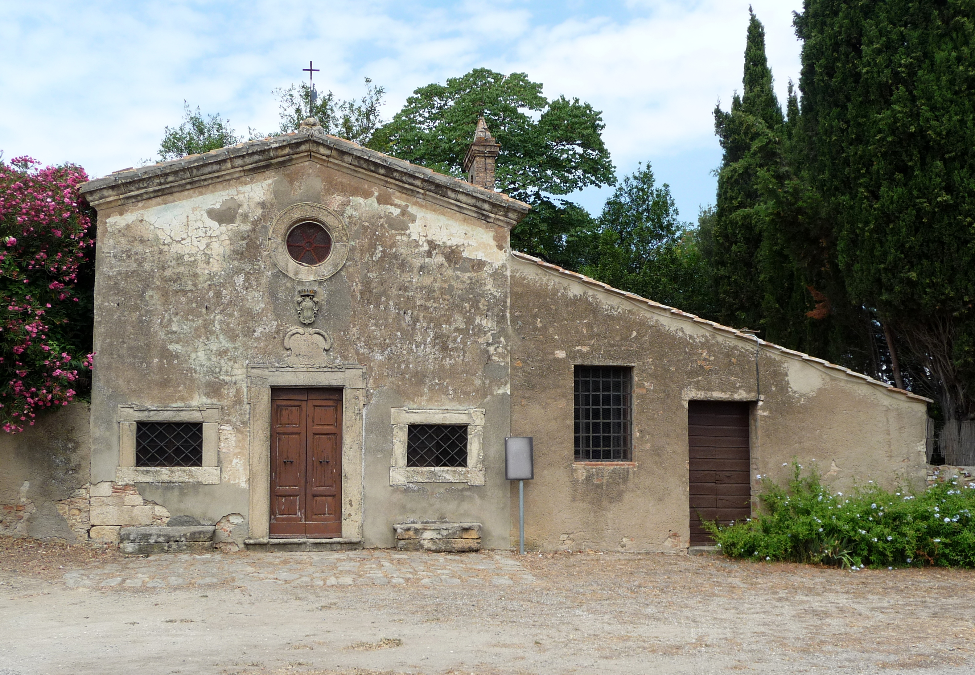 Church Chiesa di Sant'Antonio, Bolgheri, Castagneto Carducci, Tuscany, Italy